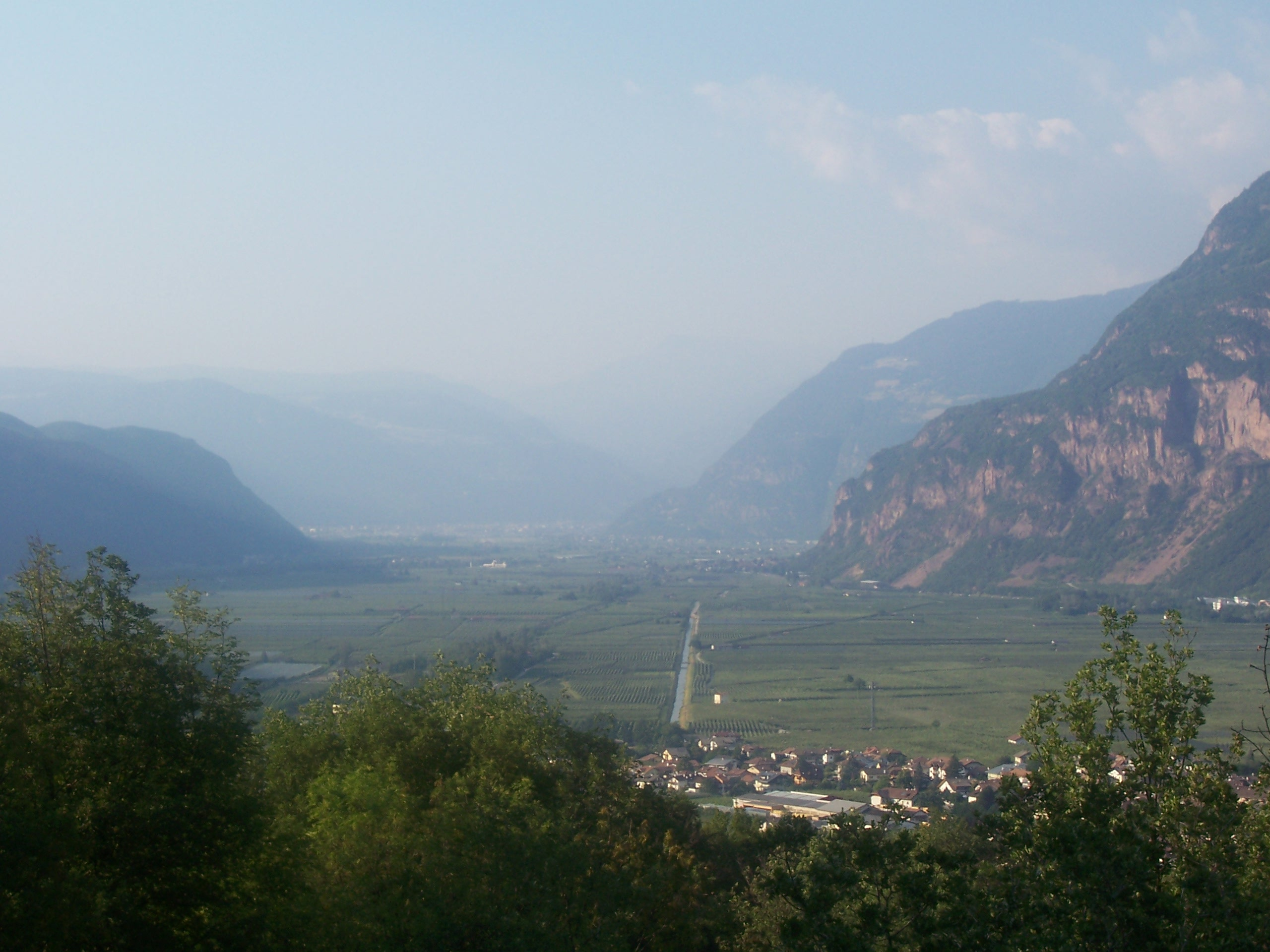 View from Castelfeder hill (Ora/Auer, South Tyrol, Italy)